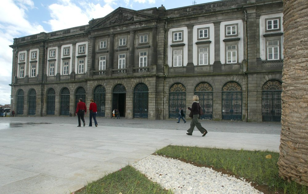 The headquarters (rectorate) of the University of Porto (UP) – UP is the largest Portuguese university by both number of students and research output. The University of Porto. The Rectory of the University of Porto. The Rector's office building of the University of Porto, the largest Portuguese university by number of students.